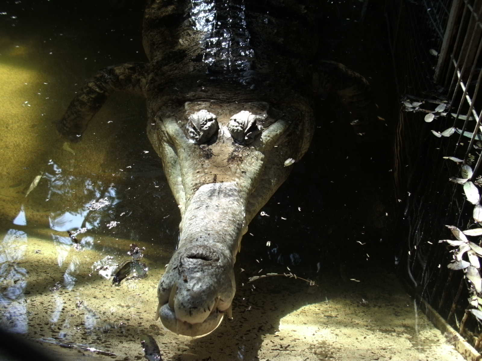 Tomistoma schlegelii in São Paulo Zoo